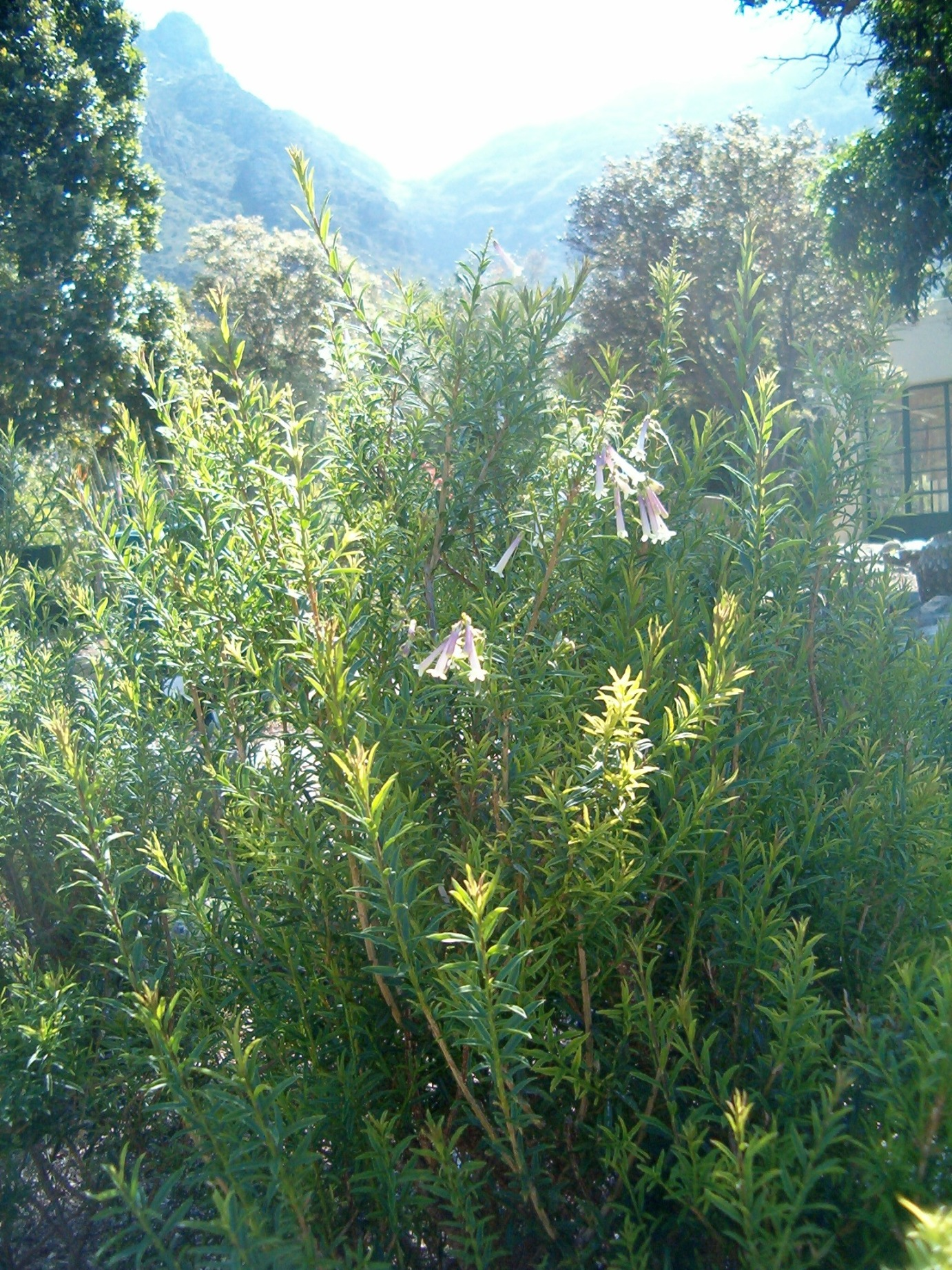 At Kirstenbosch National Botanical Gardens Species Freylinia helmei